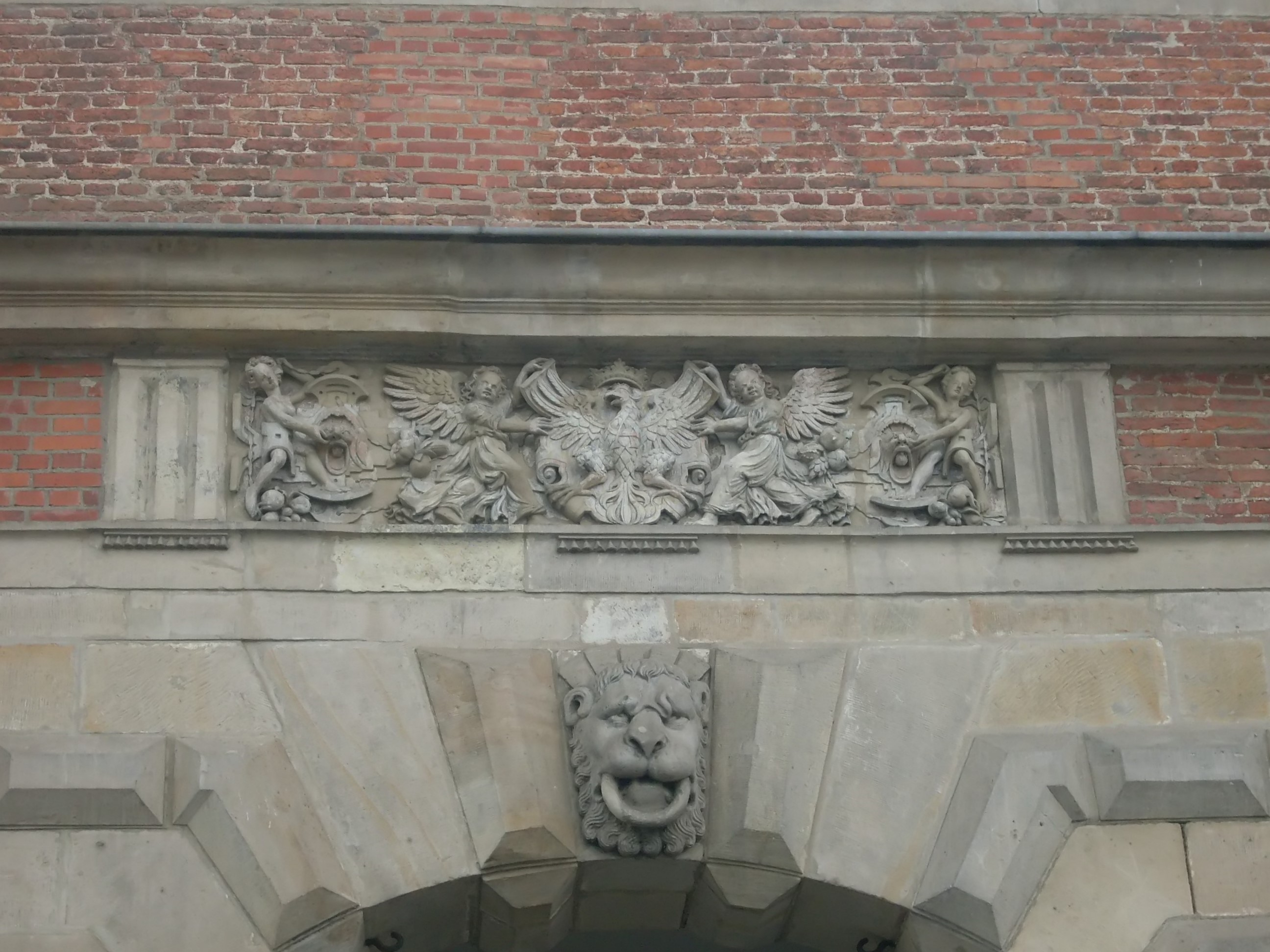 One for many reliefs at Green Gate in Gdańsk. Some bas-reliefs were sculptured on this building twice. There are here no two photographs representative the same bas-relief. Every photograph represents the unique bas-relief.